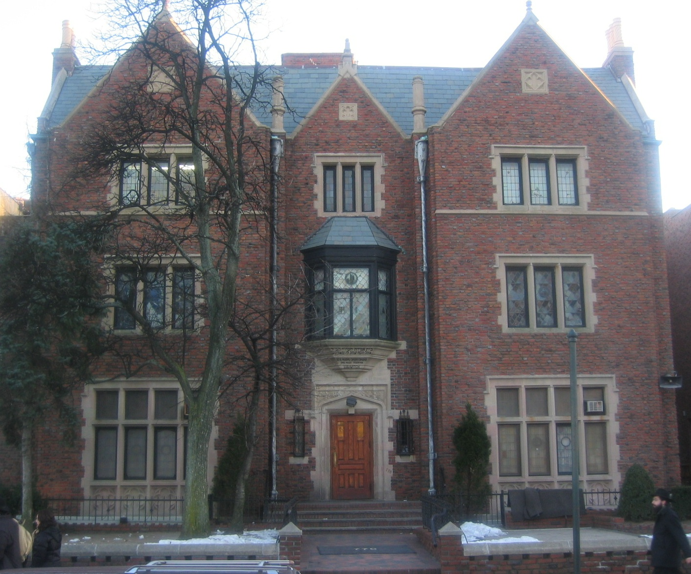 770 Eastern Parkway, the Lubavitch world headquarters. See also File:770 Eastern Parkway.jpg